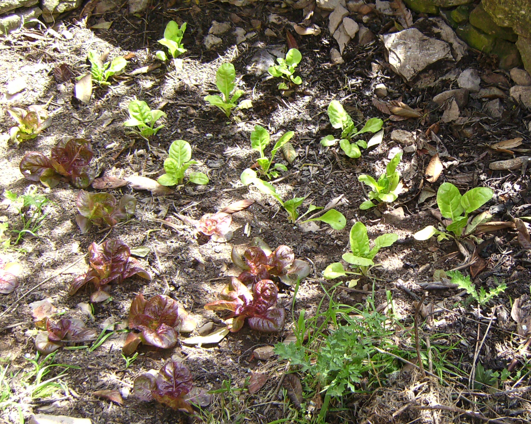 Intercropping swiss chard (green) and red lettuces, Castelltallat, Catalonia